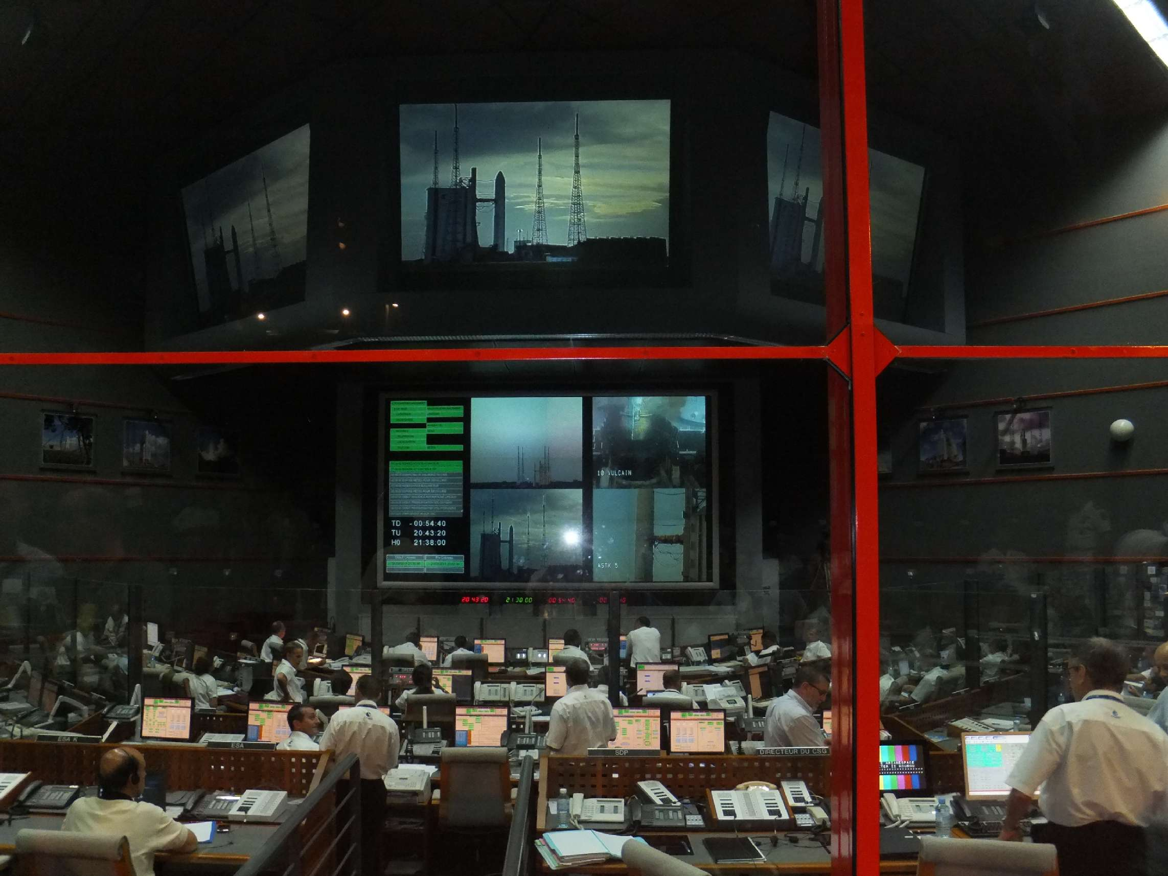 Guiana Space Center control center